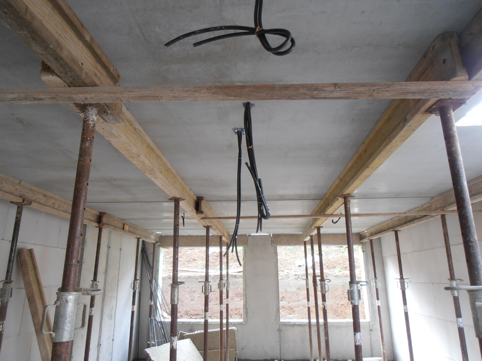 Supported concrete ceiling